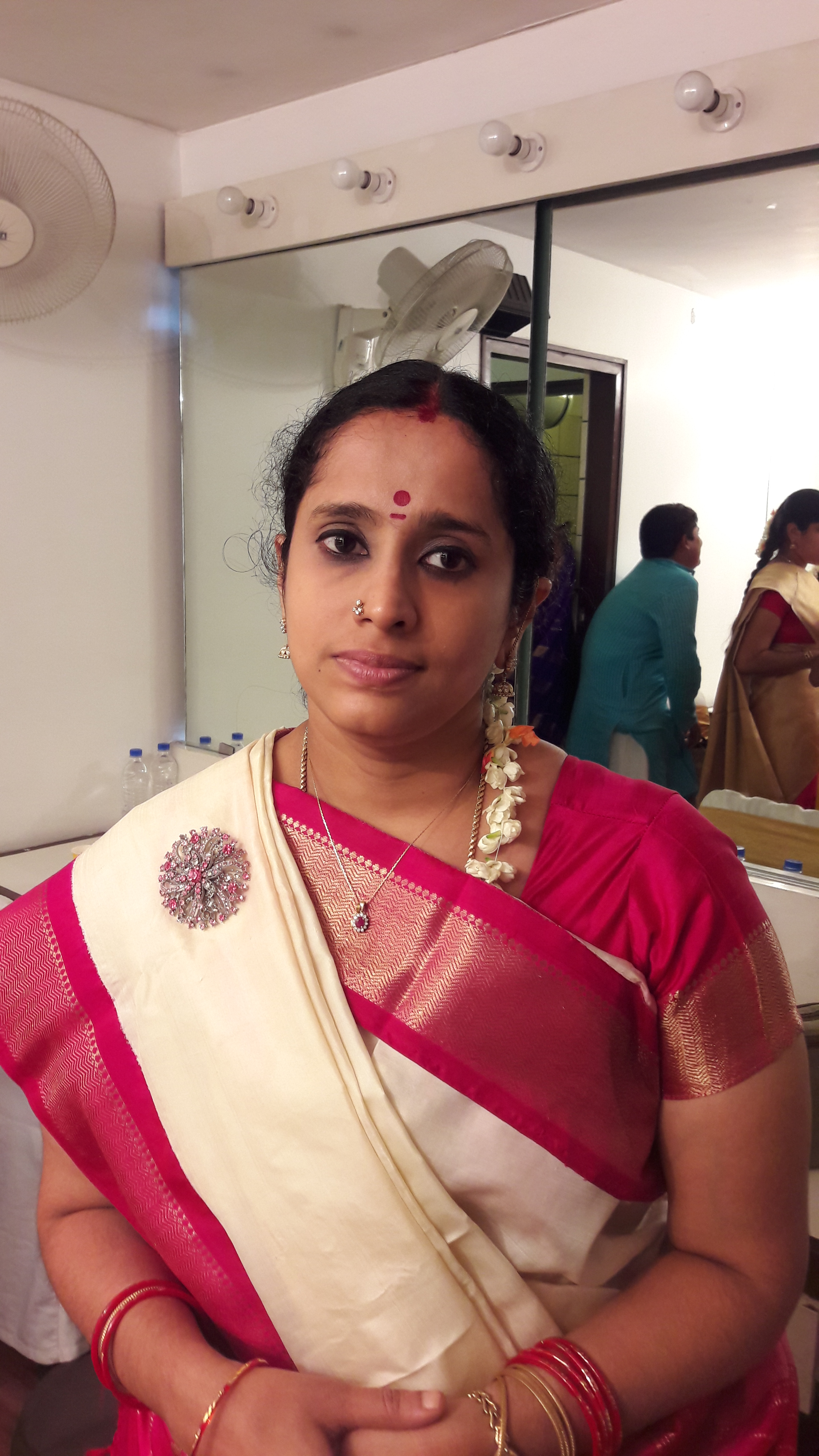 Visakha Hari